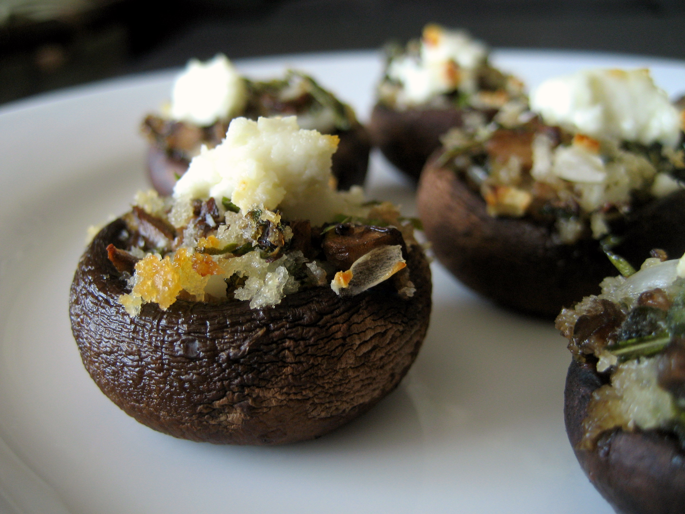 Stuffed portobello mushrooms with herbs and goat cheese.